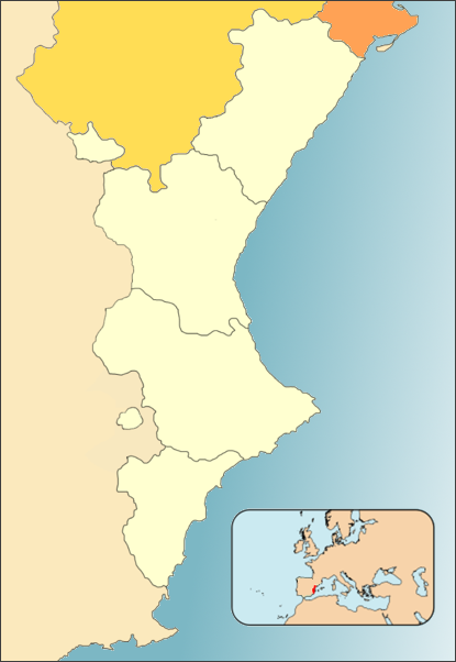 Valencian Kingdom 1493-1707